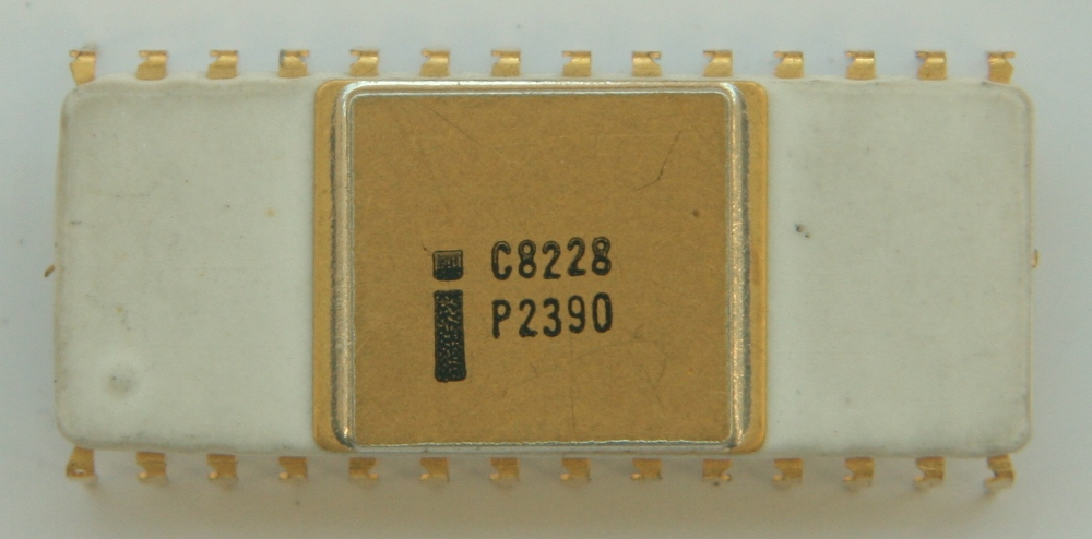 IC photo